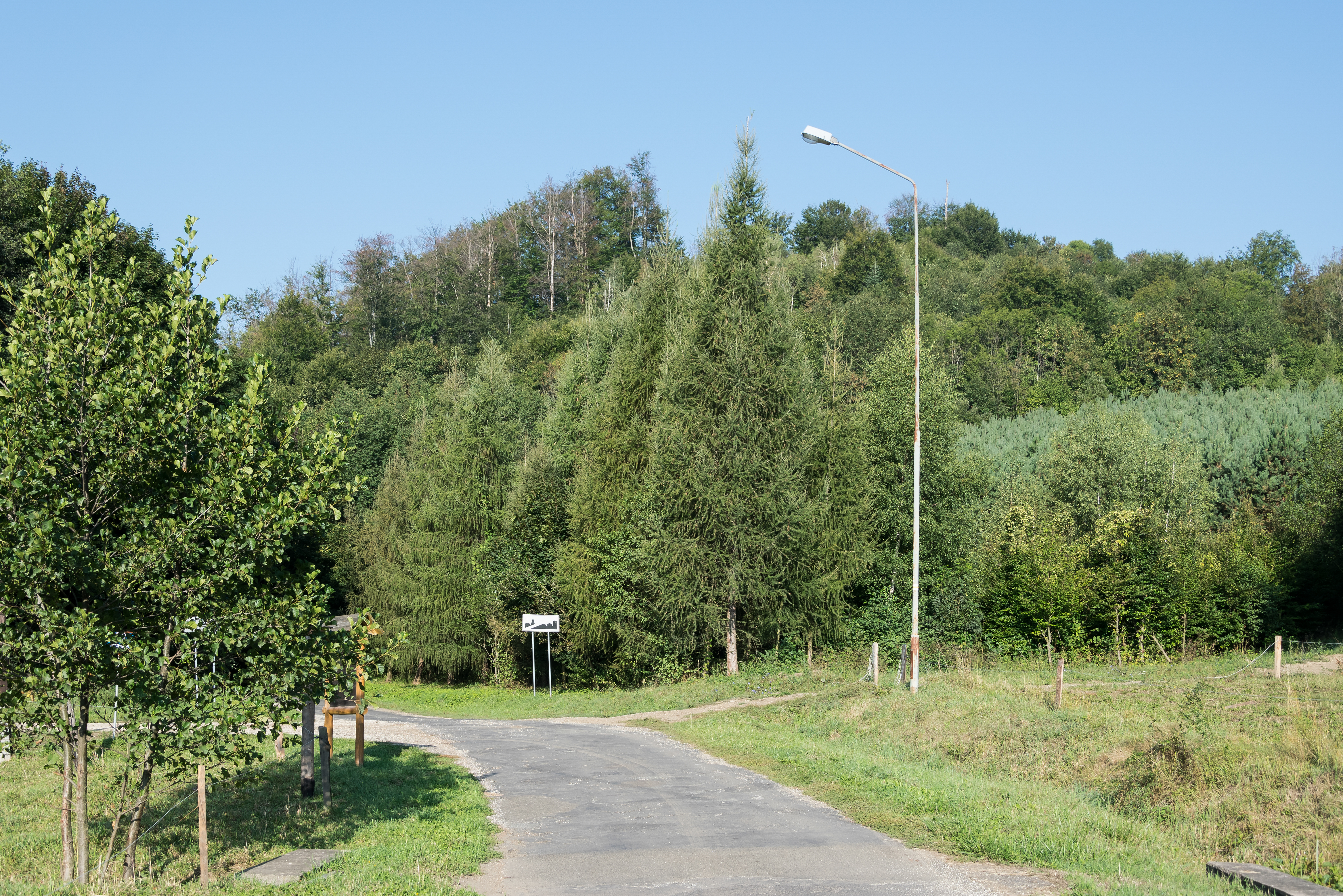 Słupiec, Krowiarki, Sudetes This is a photography of protected area with CRFOP ID PL.ZIPOP.1393.N2K.PLH020019.H